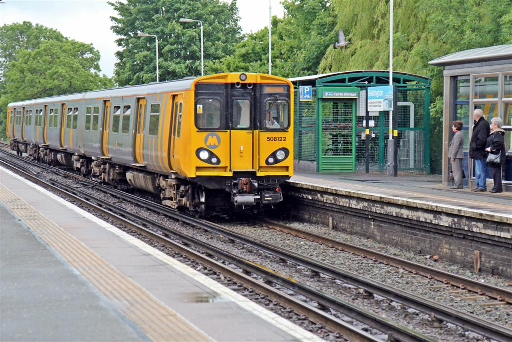 To Liverpool, Bebington Railway Station